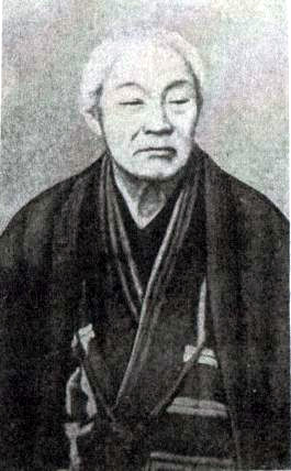 Shinmon Tatsugorō